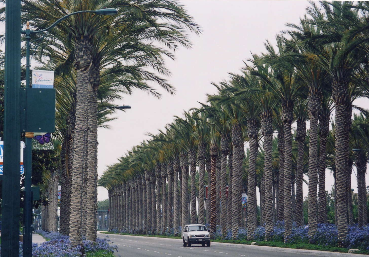 Date palms (Phoenix dactylifera) forming a Palm avenue (landscape allée) — framing Anaheim Street in Anaheim, California.